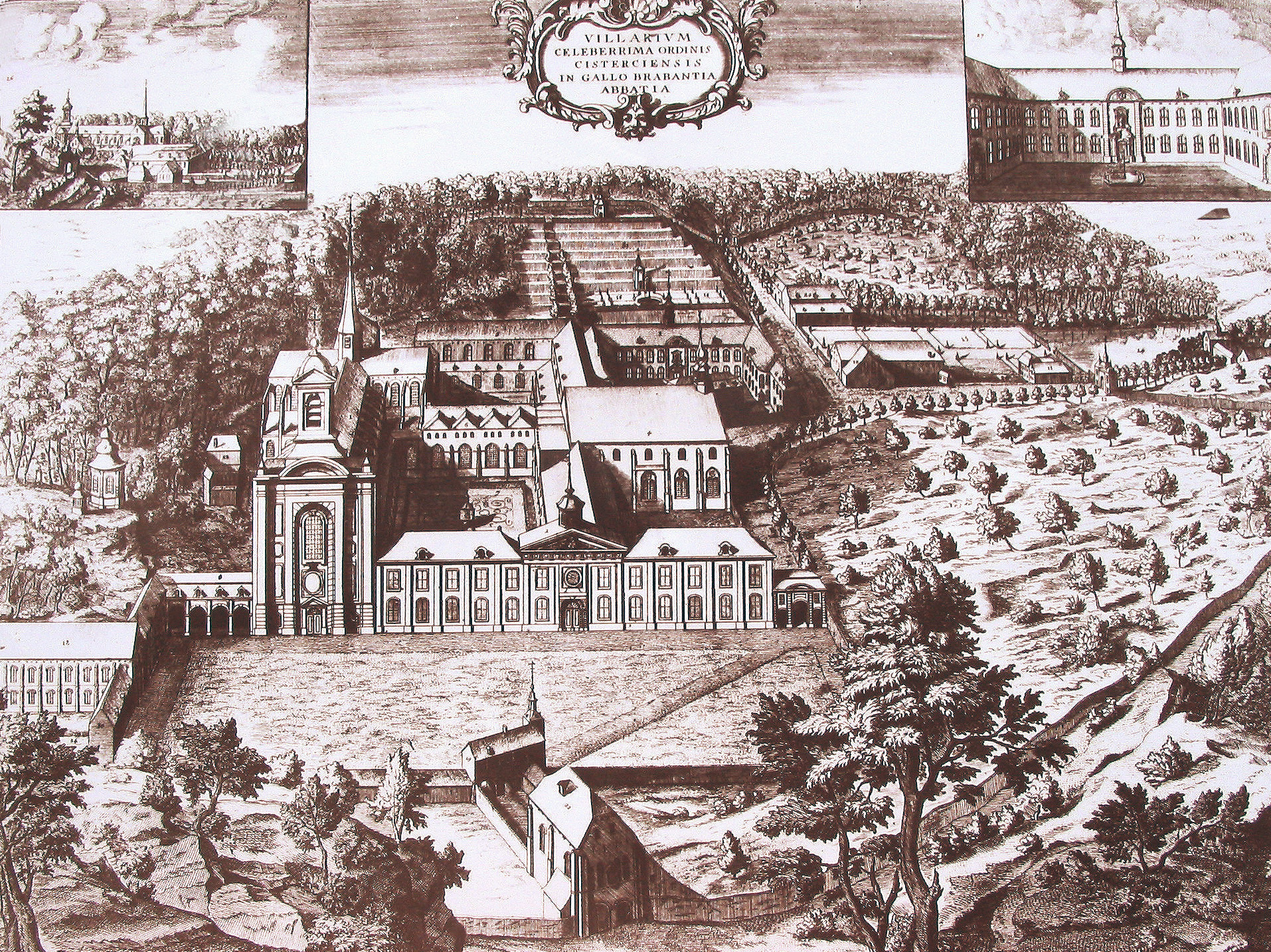 Villers-la-Ville (Belgium), western view of the abbey - Engraving of Berterham (1726), according to a drawing of Van Wel, published in: Antoine SANDERUS, « Chorographia sacra Brabantiae sive celebrium aliquot in ea Provincia abbatiarum, coenobiorum, monasteriorum, ecclesiarum, piarumque fundationum descriptio ». T.1, The Hague, 1726.